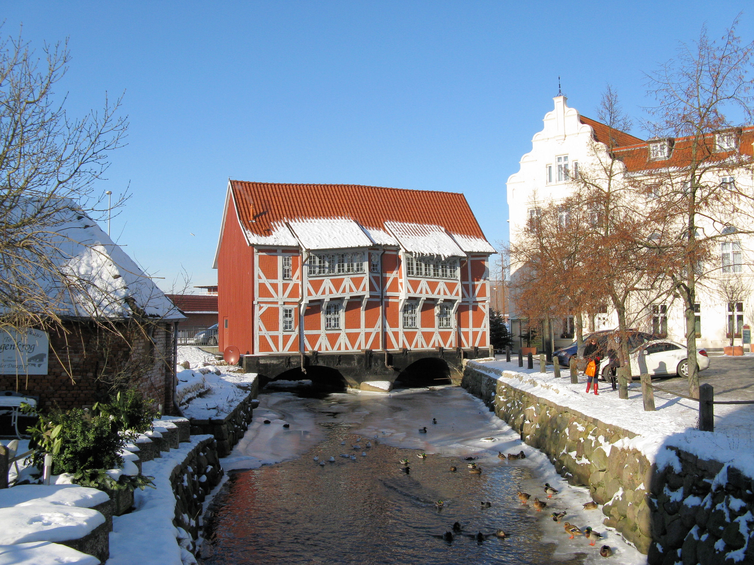 so called building Gewölbe with ditch Grube near old harbour in Wismar, Mecklenburg-Vorpommern, Germany